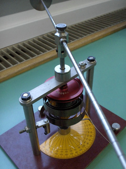 A torsion pendulum